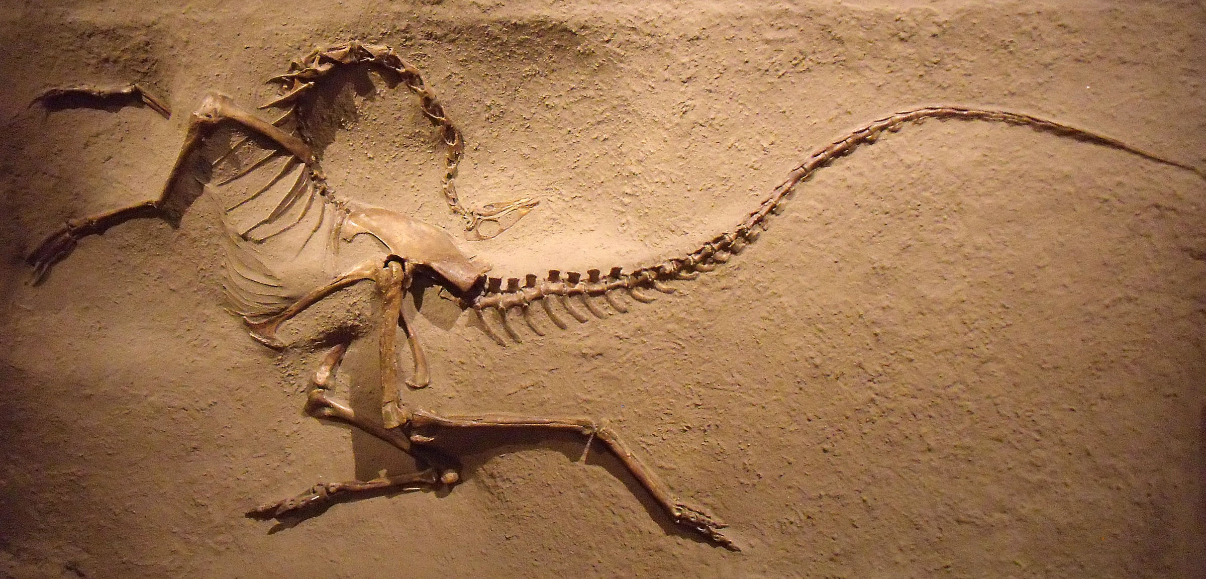 Cast of a Struthiomimus altus skeleton. Royal Tyrrell Museum, Drumheller, Alberta, Canada.